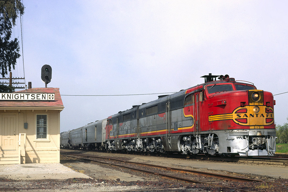 In February 1968, an excursion was operated from Richmond, California to Stockton and return, pulled by two of the Santa Fe's ALCO PA units. They are seen here at Knightsen as they are backing up in preparation for a photo run. The depot at Knightsen had been destroyed in a derailment, so a piece of it was turned and continued in use.